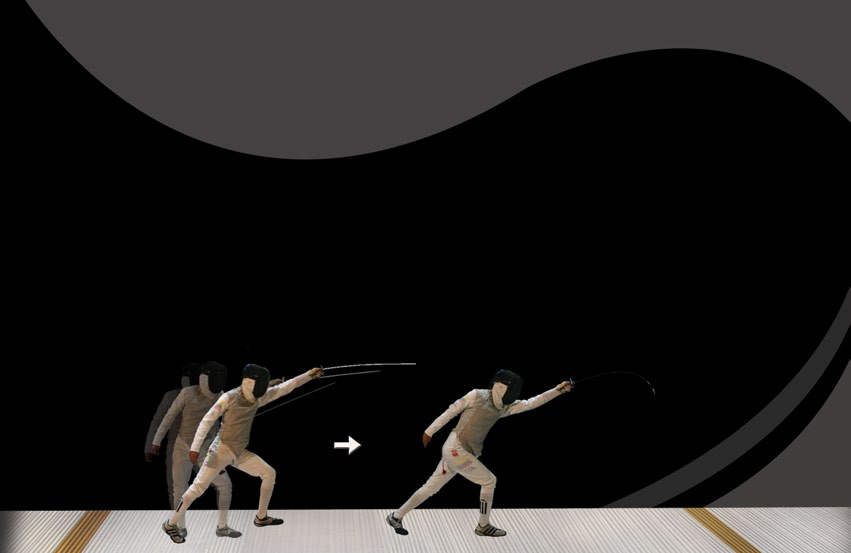 fencing (épée)